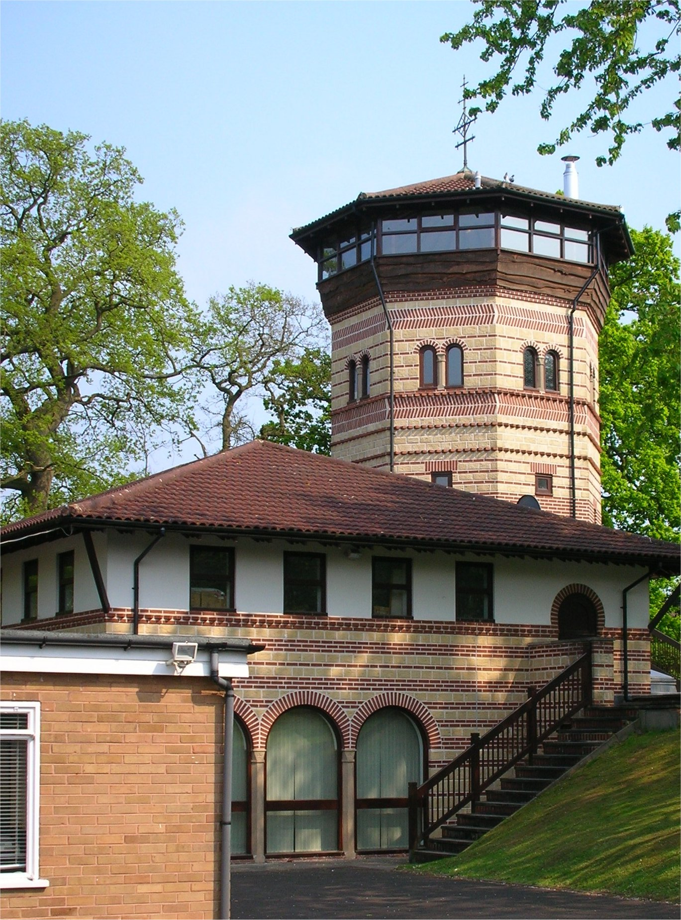 Offices attached to the Serbian Orthodox Church of St Lazar, Bournville, Birmingham, England. Photographed by me 27 April 2007. Oosoom